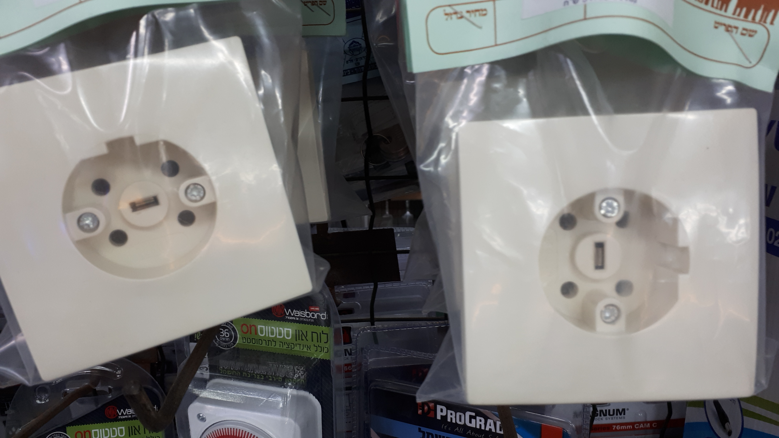 Two triple-phase sockets in Israel, 2020